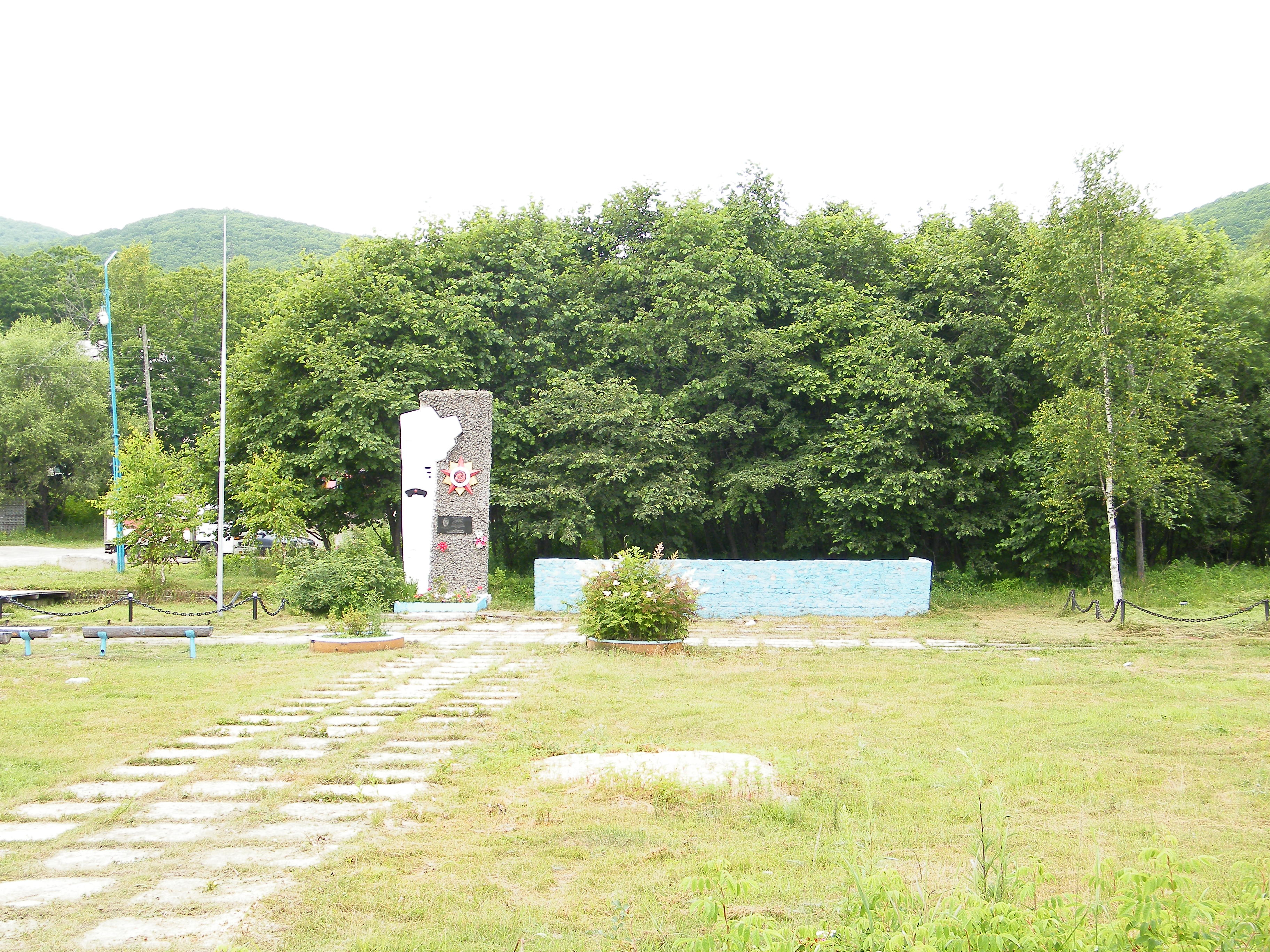 Vladimir Bay